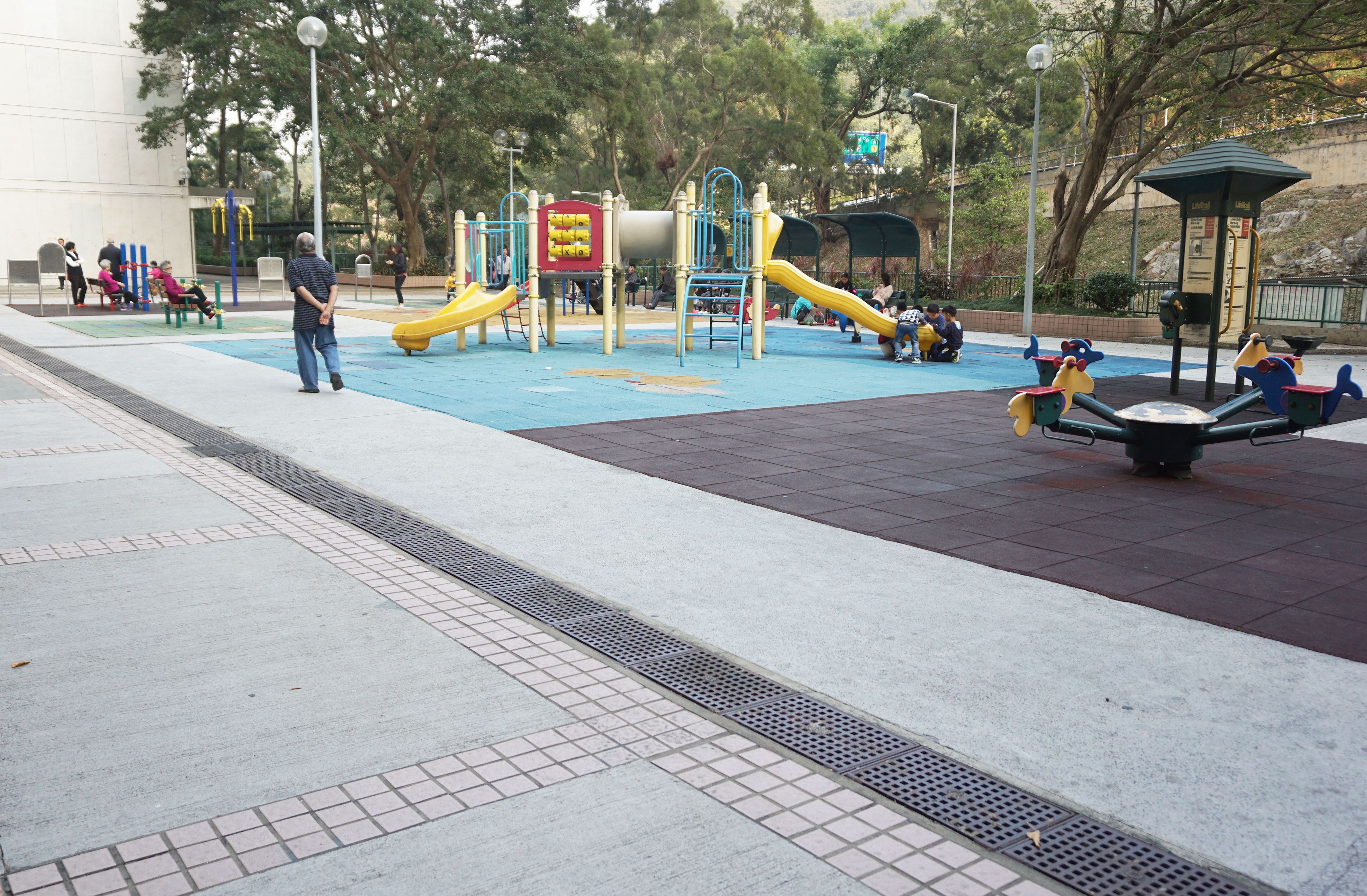 Sun Tin Wai Estate in Sha Tin Tau, Hong Kong.